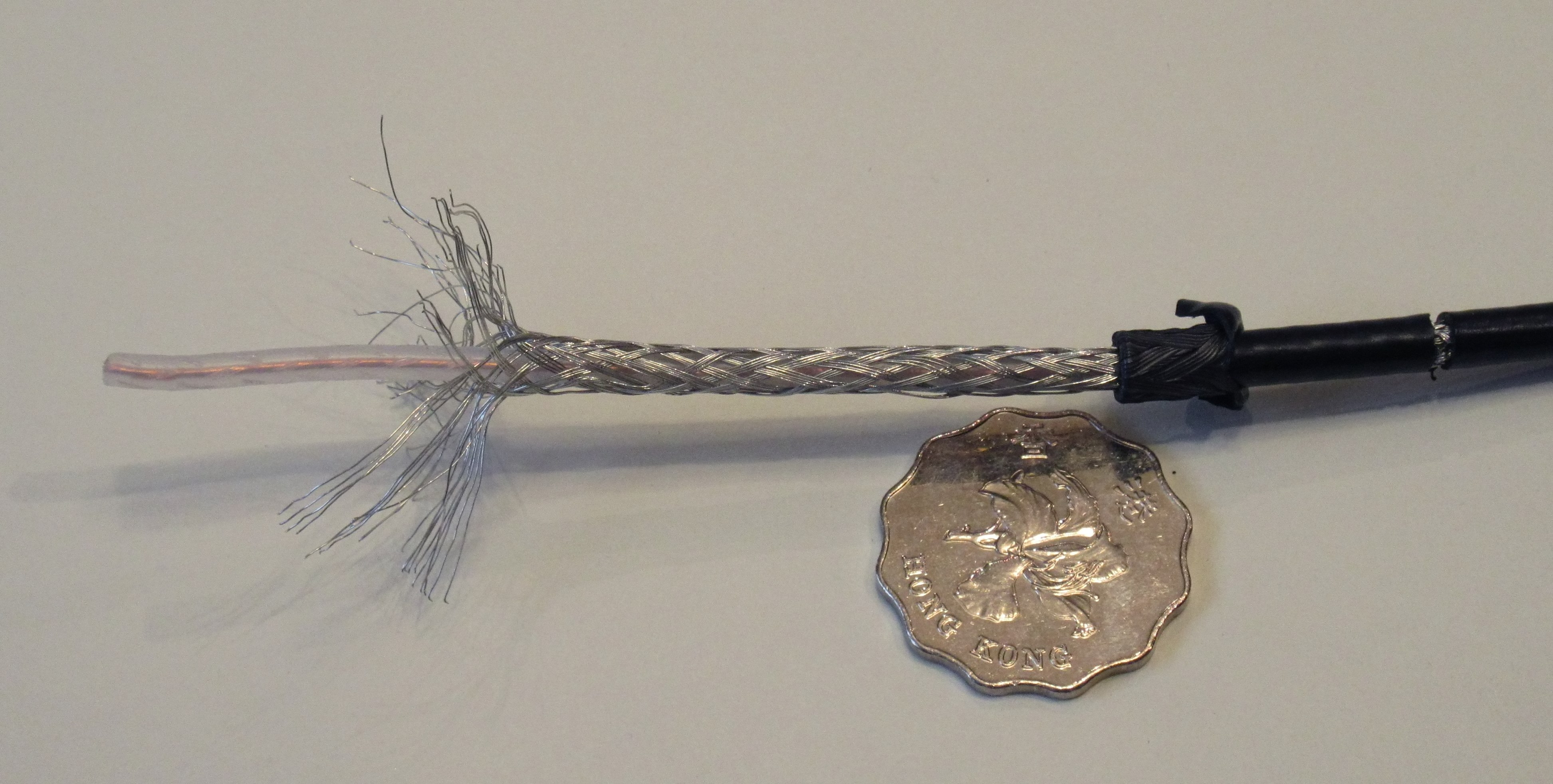 The outer conductor of this miniature coaxial cable (RG 58 type) is made of braided wire. In use, a radio frequency connector would be attached to free end of the cable to preserve the constant impedance characteristic.